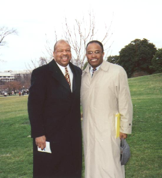 Baltimore Mayor Kurt L. Schmoke and Congressman Elijah Cummings in Washington, D.C. (January, 1999)